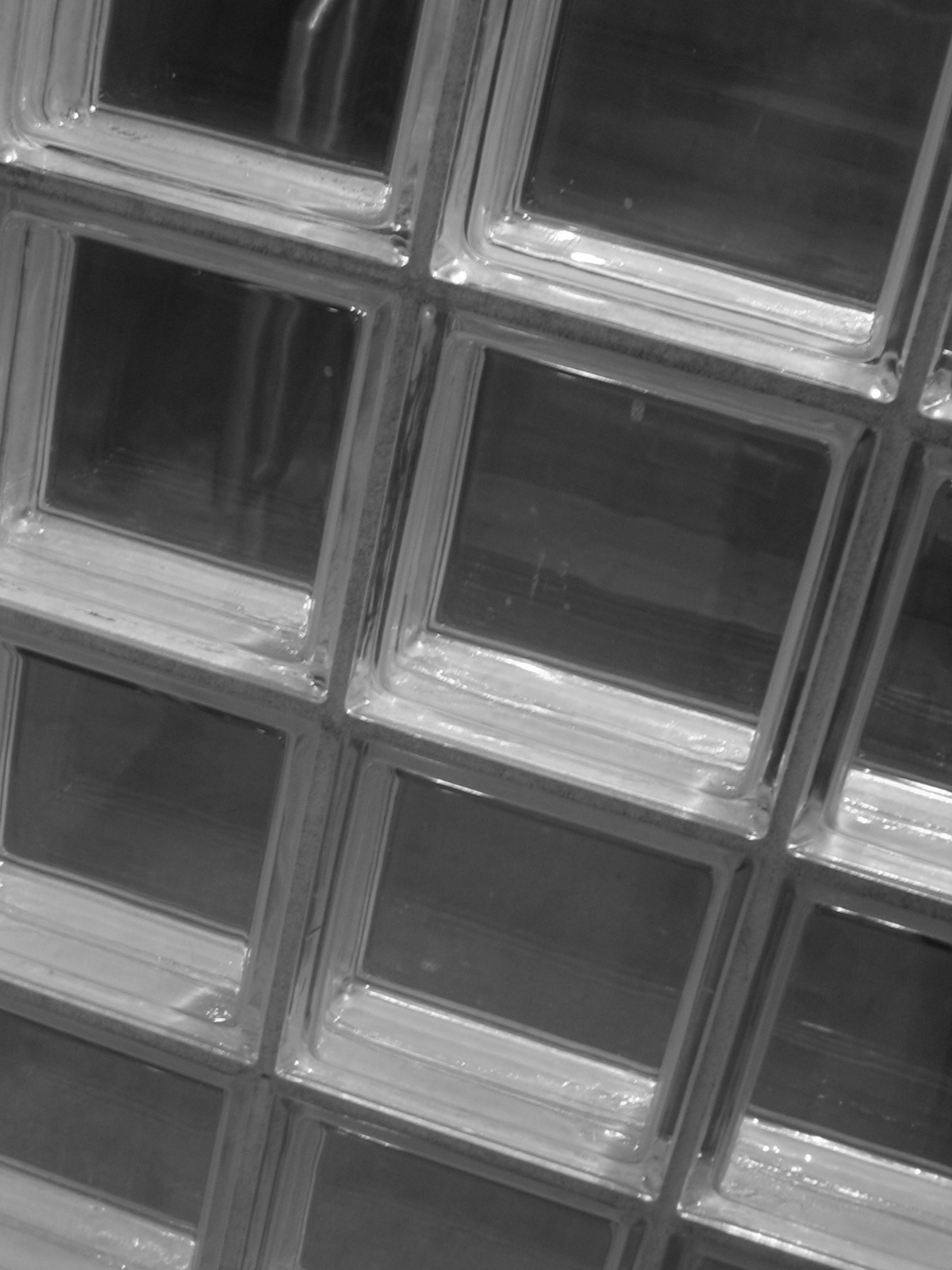 Glass Brick Window